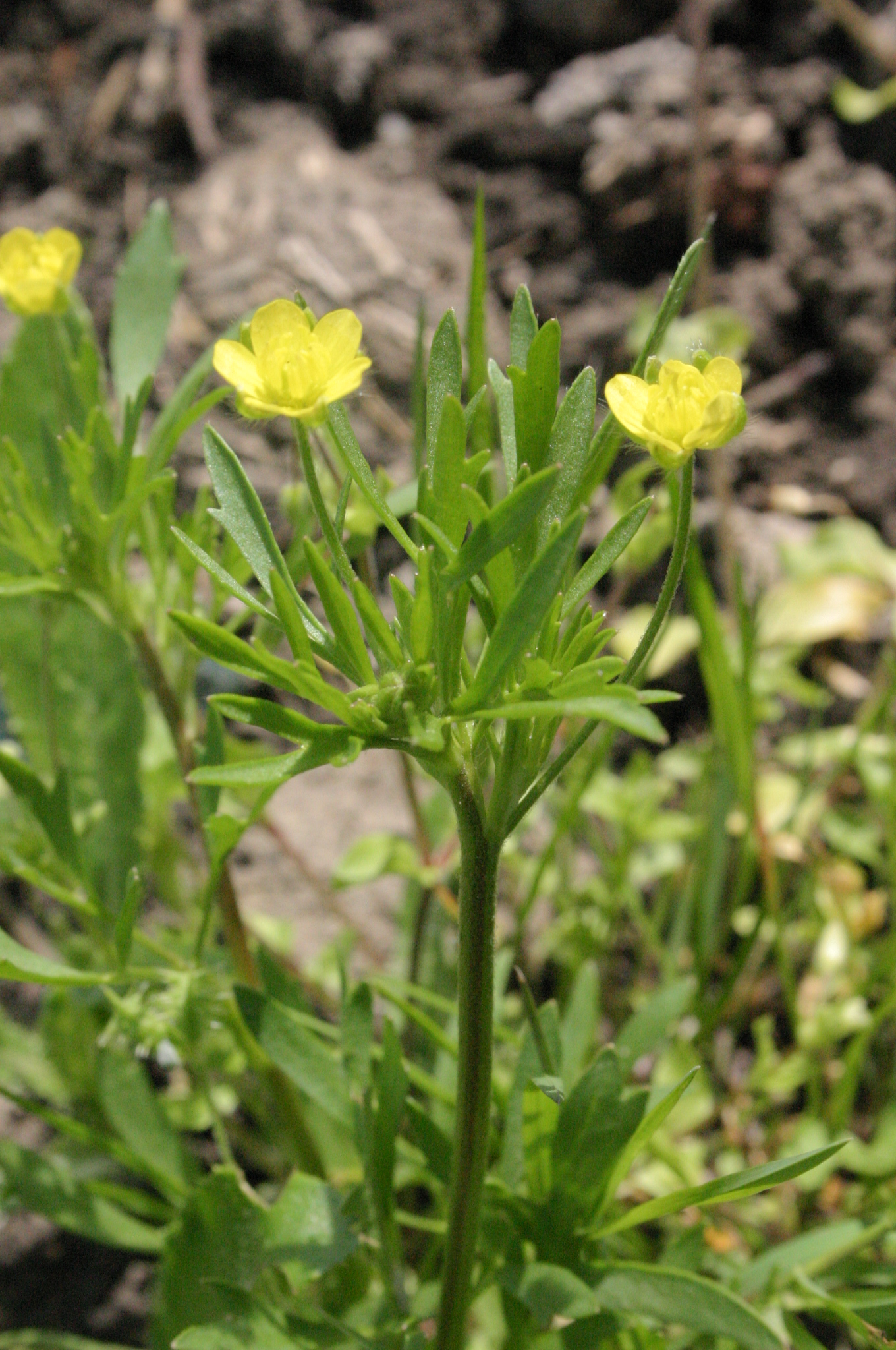 Ranunculus arvensis